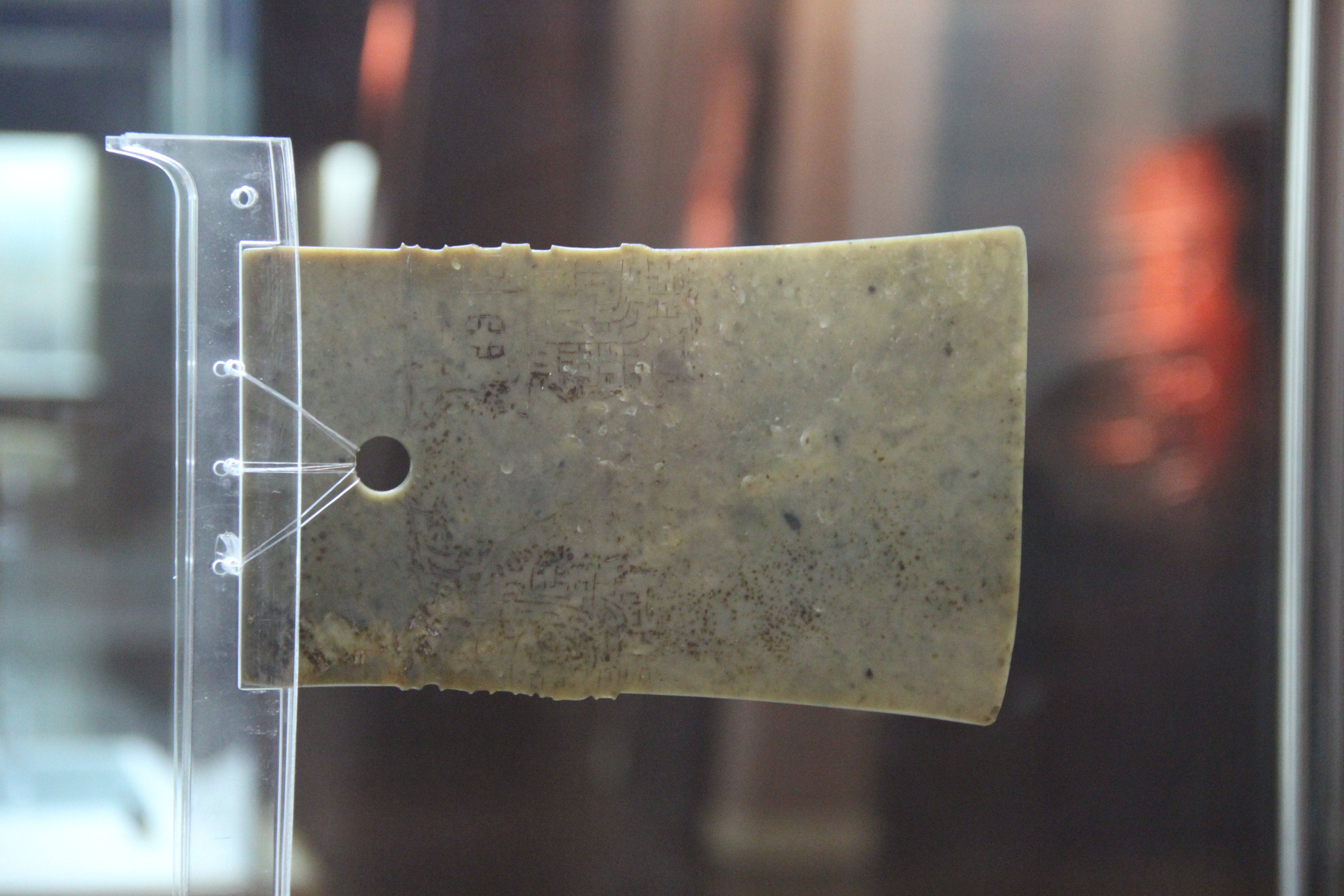 Shanxi Provincial Museum, Taiyuan, Porcelain and Jade Galleries. Complete indexed photo collection at .